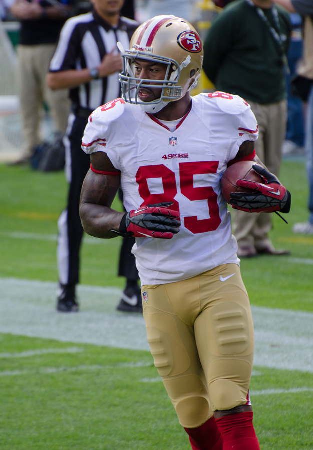 San Francisco 49ers vs. Green Bay Packers at Lambeau Field on September 9, 2012. Photo by Mike Morbeck.